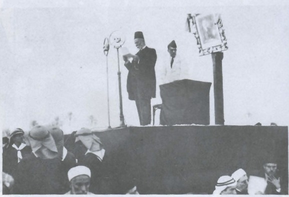 Salim Ali Salam delivering a eulogy for King Faysal I of Iraq on behalf of the Lebanese delegation that traveled to Baghdad in 1933